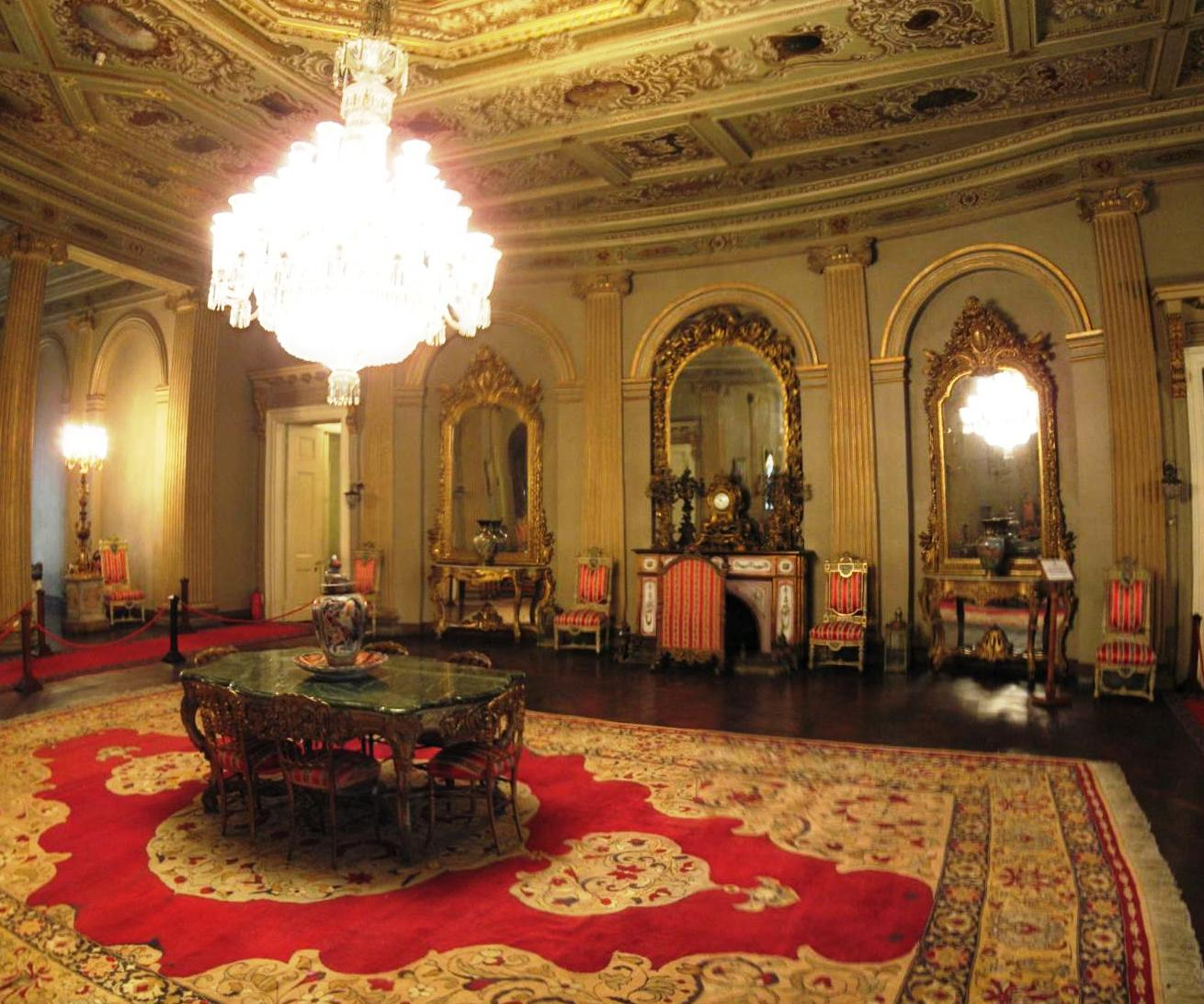 The Entrance Hall in Dolmabahçe Palace.